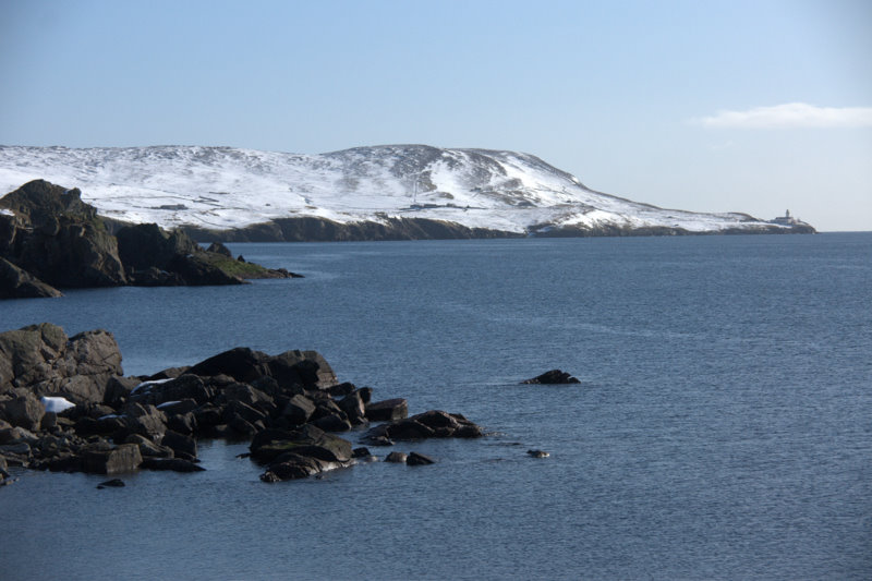 View from Breiwick, Lerwick, towards Bressay Looking past the end of the Knab towards the Ward of Bressay and the lighthouse at Kirkabister Ness.